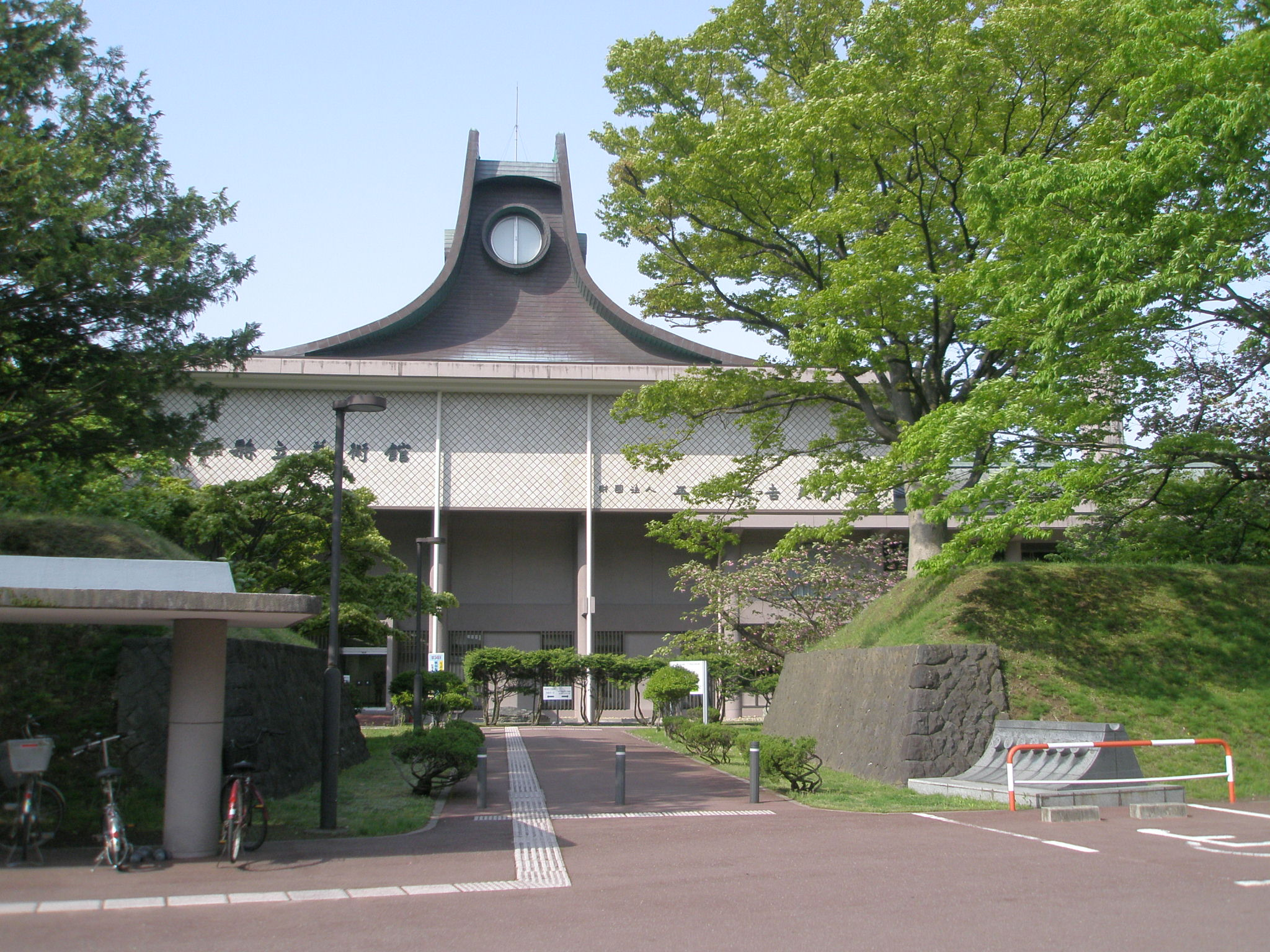 'Masakichi Hirano Museum of Fine Art' (Akita prefectural art museum) is an art museum in Akita city. This museum is known as collection of Fujita Tsuguharu (Léonard Foujita).